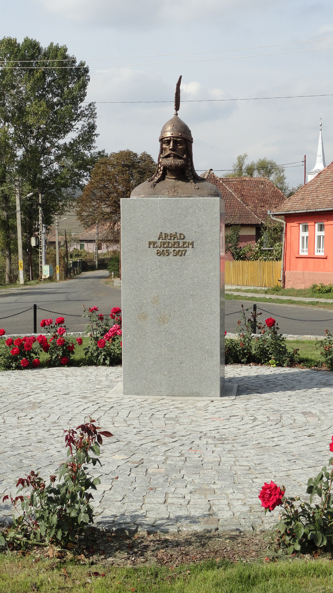 The Árpád statue in Székelybere (Bereni, Mureș County, Romania)